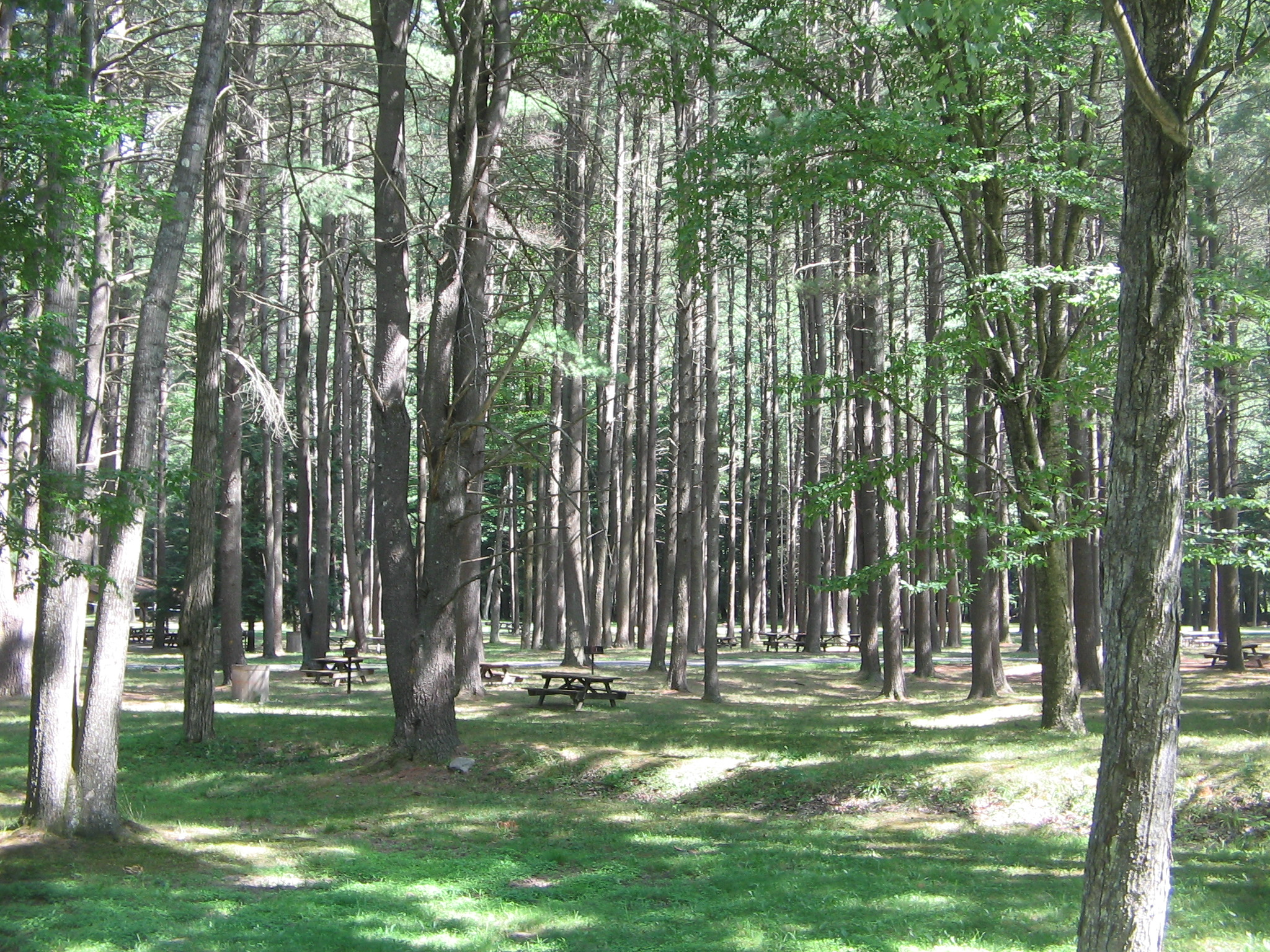 Hyner Run State Park in Chapman Township, Clinton County, Pennsylvania, United States